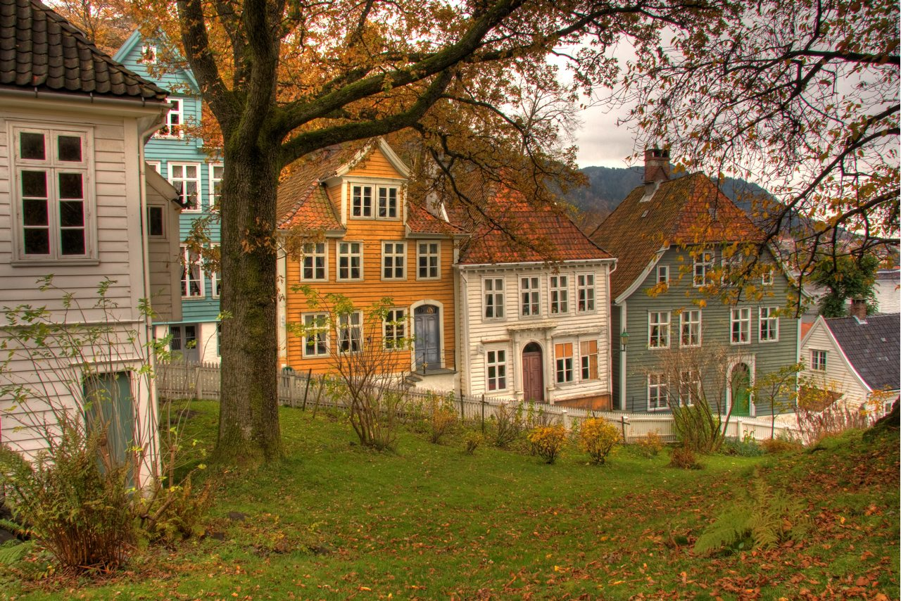 Gamle Bergen, Norway